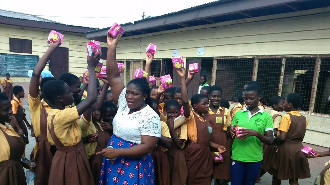 Female leaders of the community plan and implement education programs in urban poor schools, providing a complimentary pack of sanitary pads to girls.